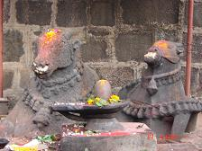 Nandi at the Bhimashankar Temple, Maharashtra, India